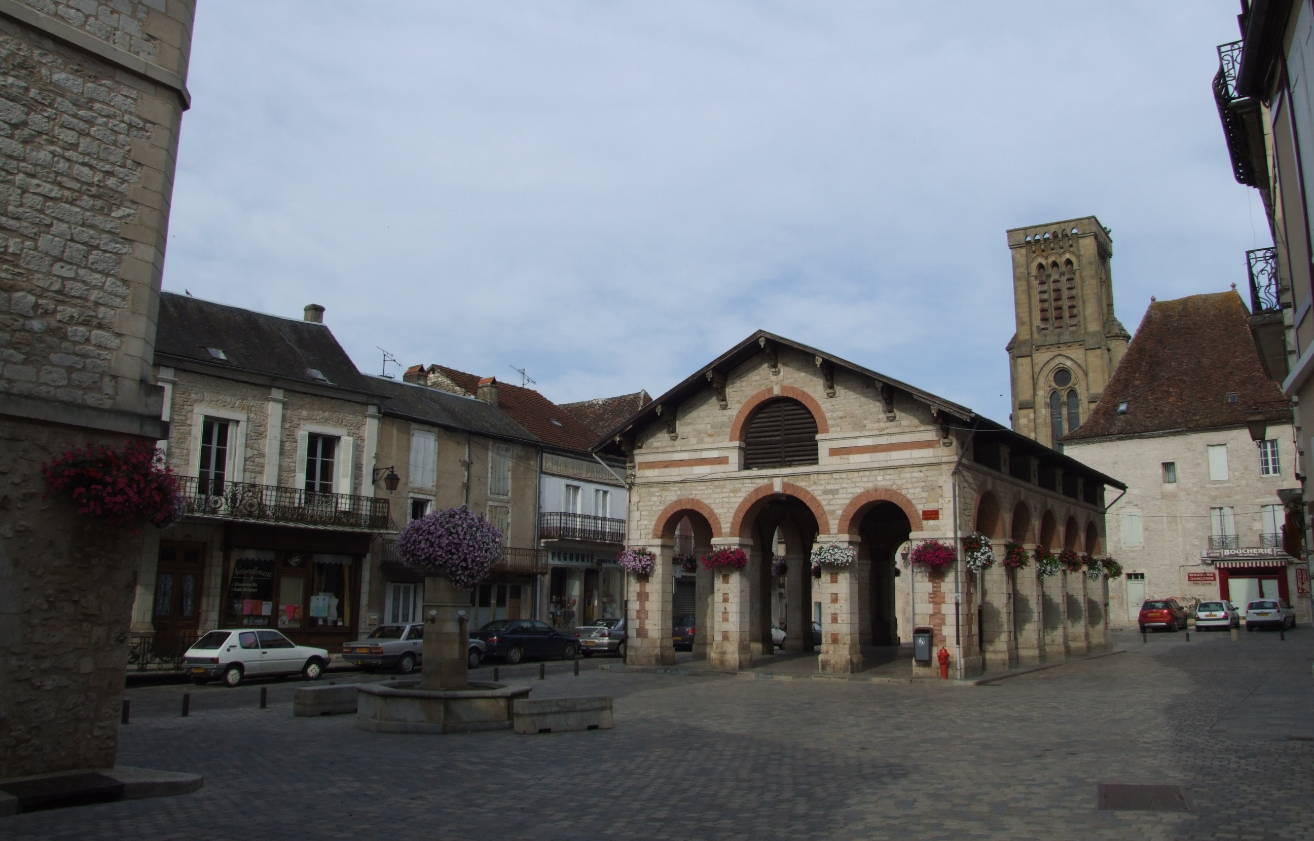 Gramat, Lot, FRANCE